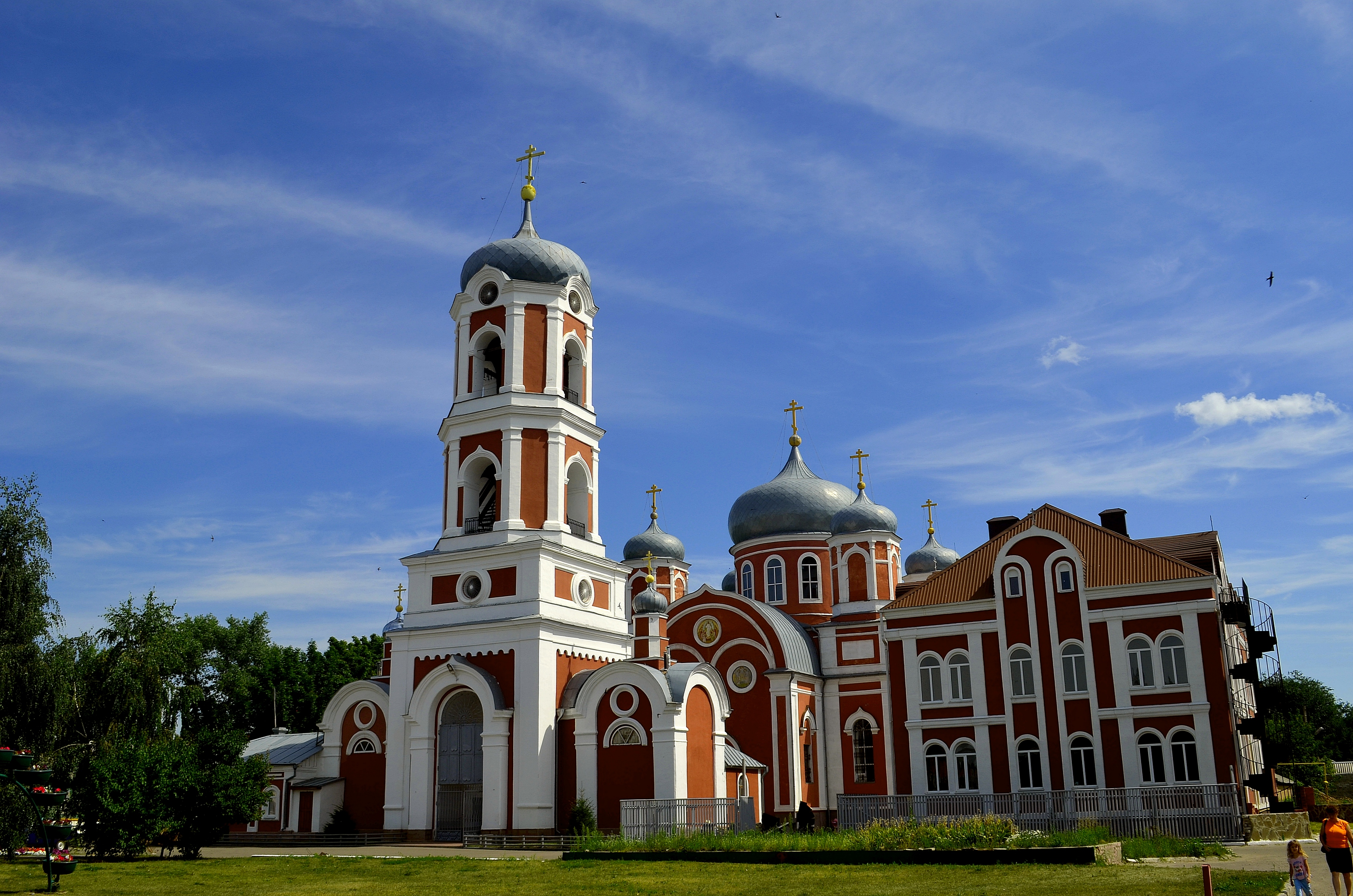 Novokhopyorsk (Voronezhskaya oblast). Resurrection Cathedral